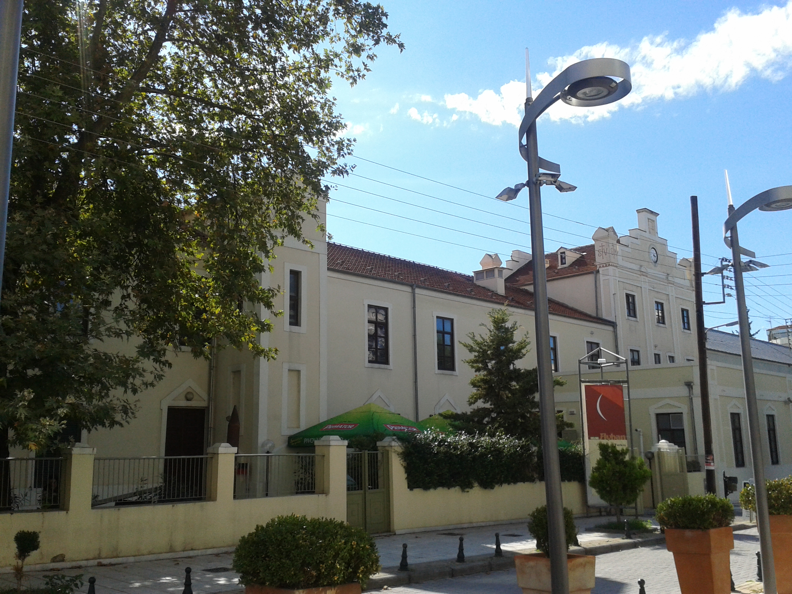 Thessaloniki Bulgarian Catholic Seminary Lazarist Monastery